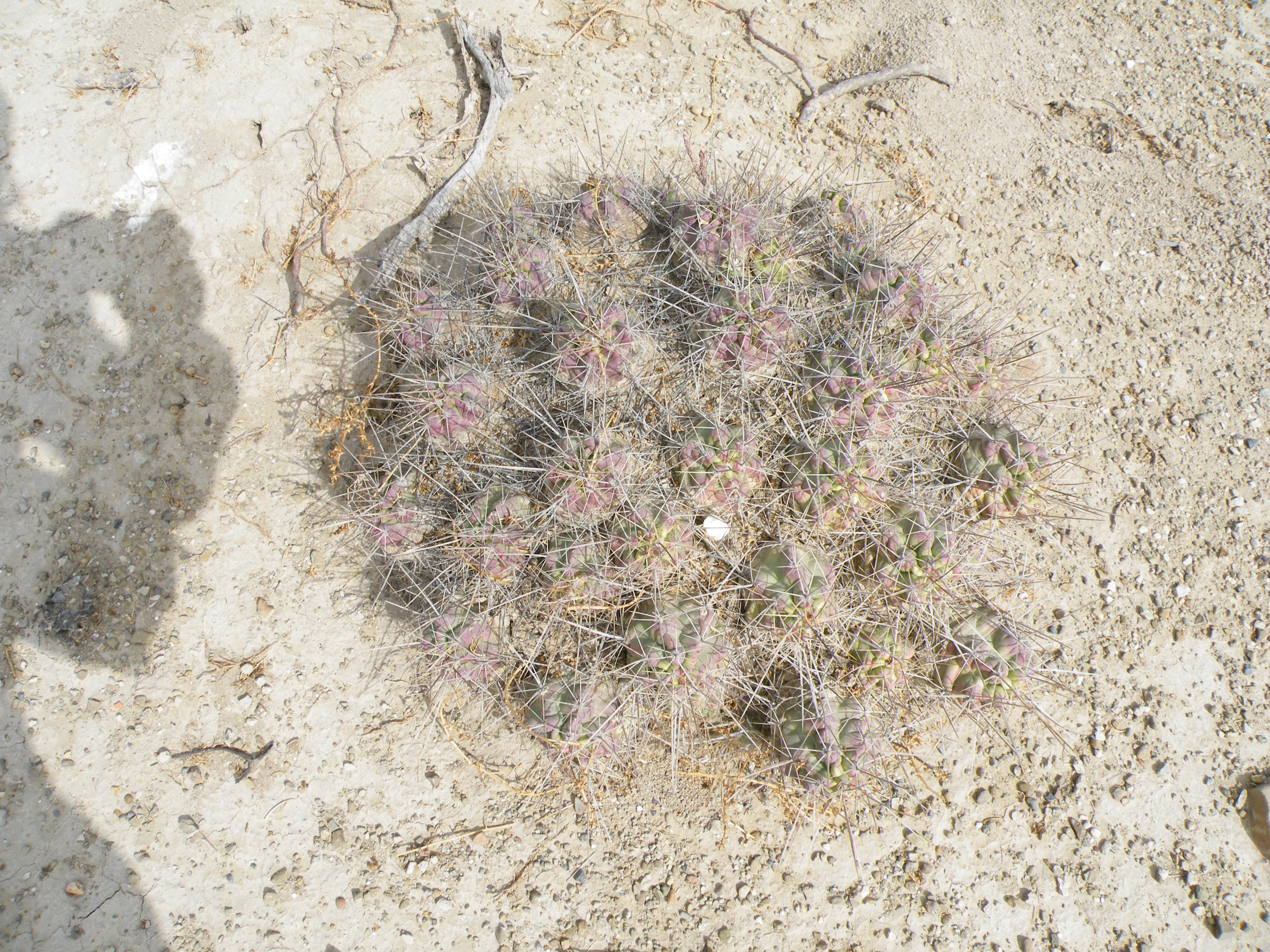 On the way to Marte, Coahuila